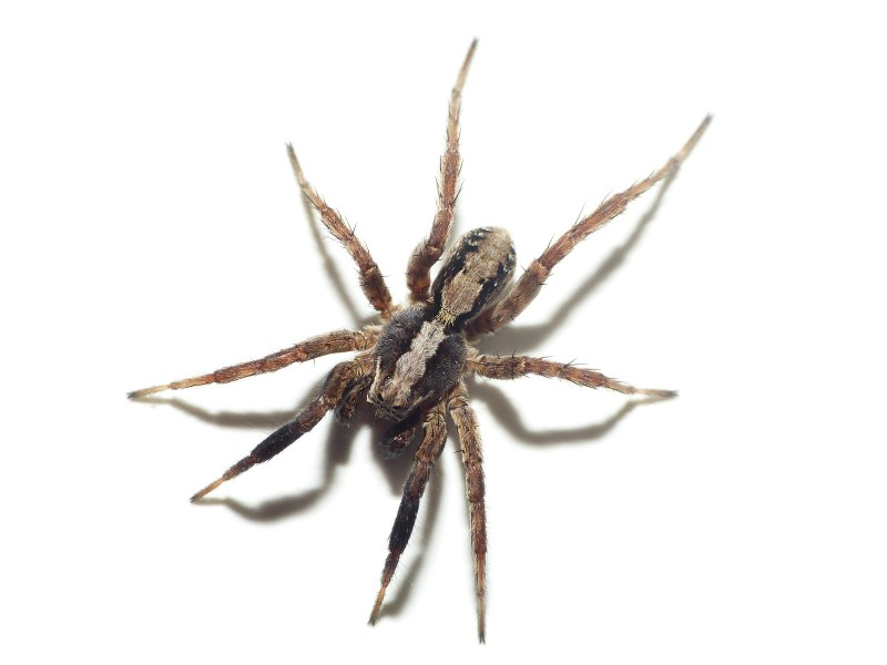 Alopecosa barbipes (Lycosidae), De Hamert - Gertenkamp, the Netherlands